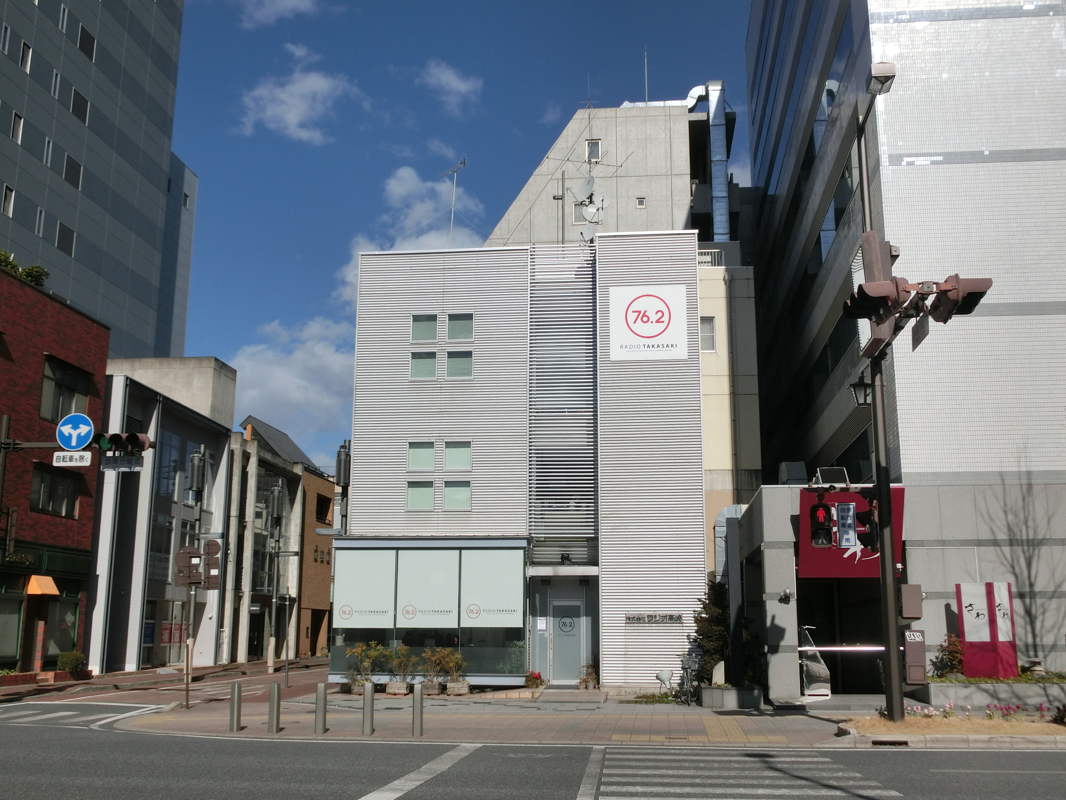 Radio Takasaki Station